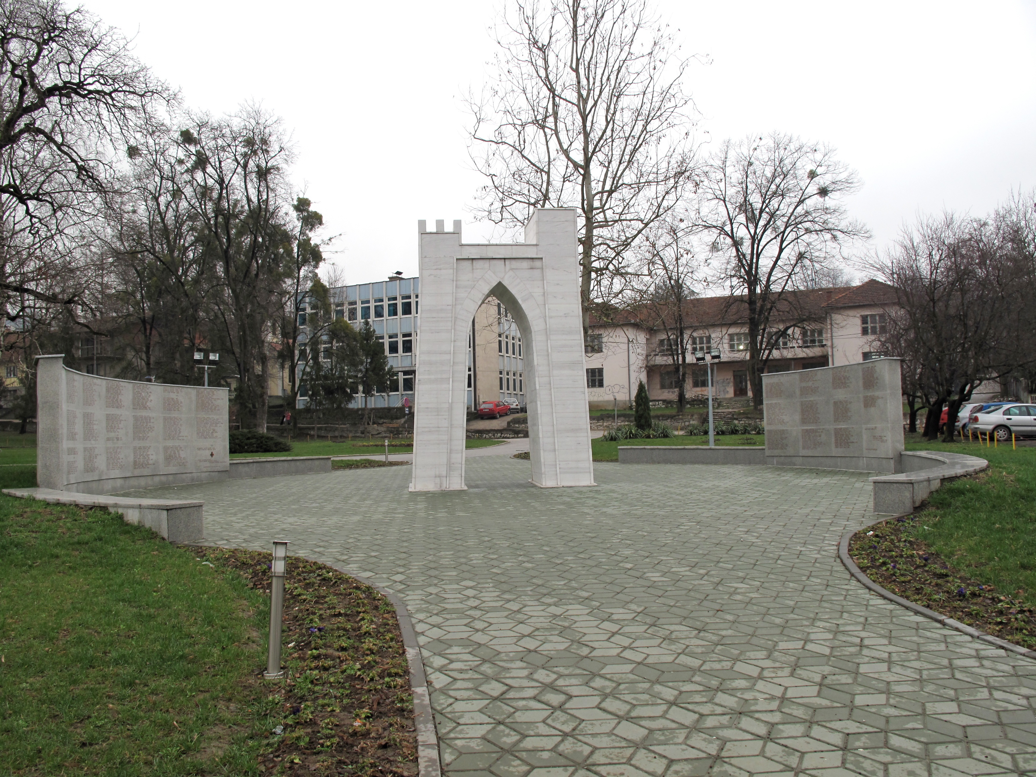 The memorial to the dead of the Bosnian war